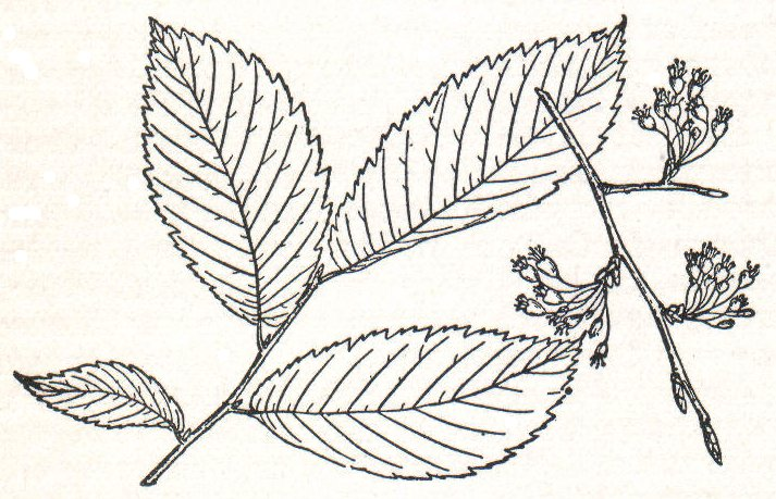 white elm